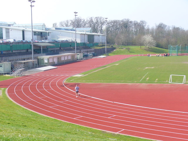 Spectrum, Outdoor Sports Arena As well as catering for athletics, this is the home of Guildford City FC - the grandstand can just be seen between the first two pylons. Behind the grandstand is the Spectrum Leisure centre.